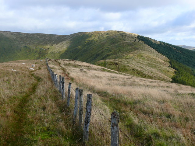 Mynydd Ceiswyn Bwlch rhwng Mynydd Ceiswyn a Waun Oer / Col between Mynydd Ceiswyn and Waun Oer